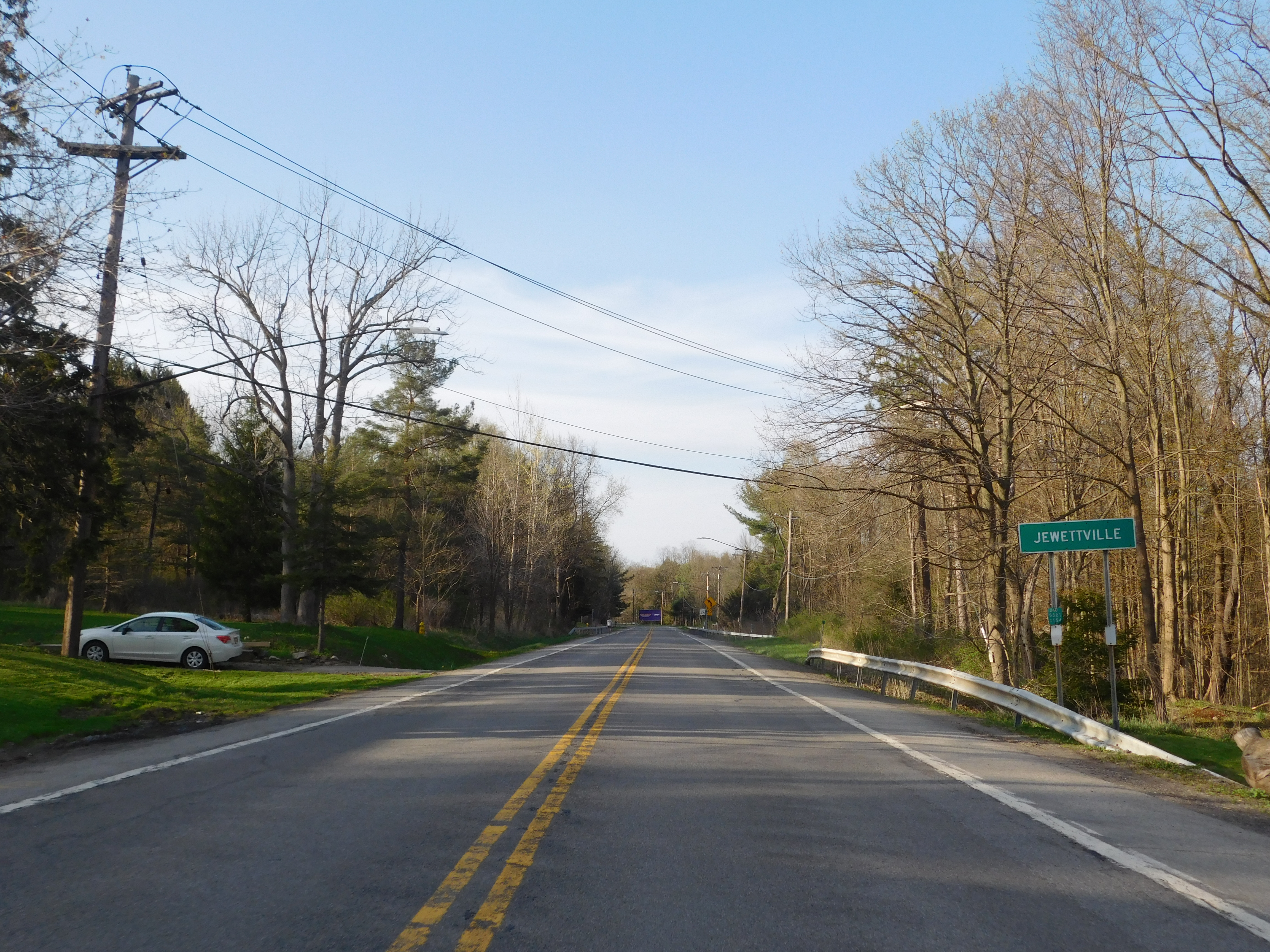 New York State Route 240 northbound in Jewetvville, New York.